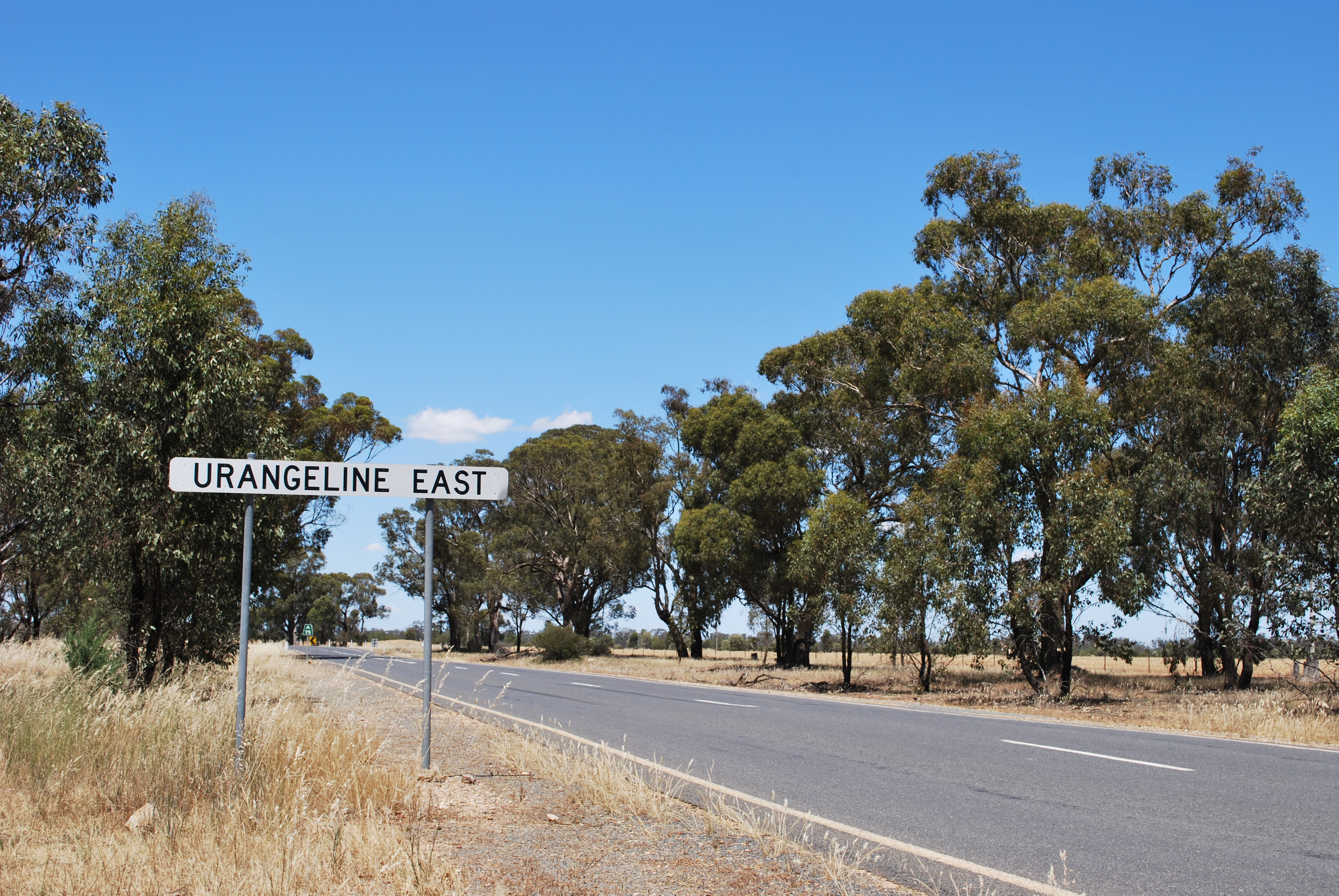 Town entry sign at Urangeline East, New South Wales